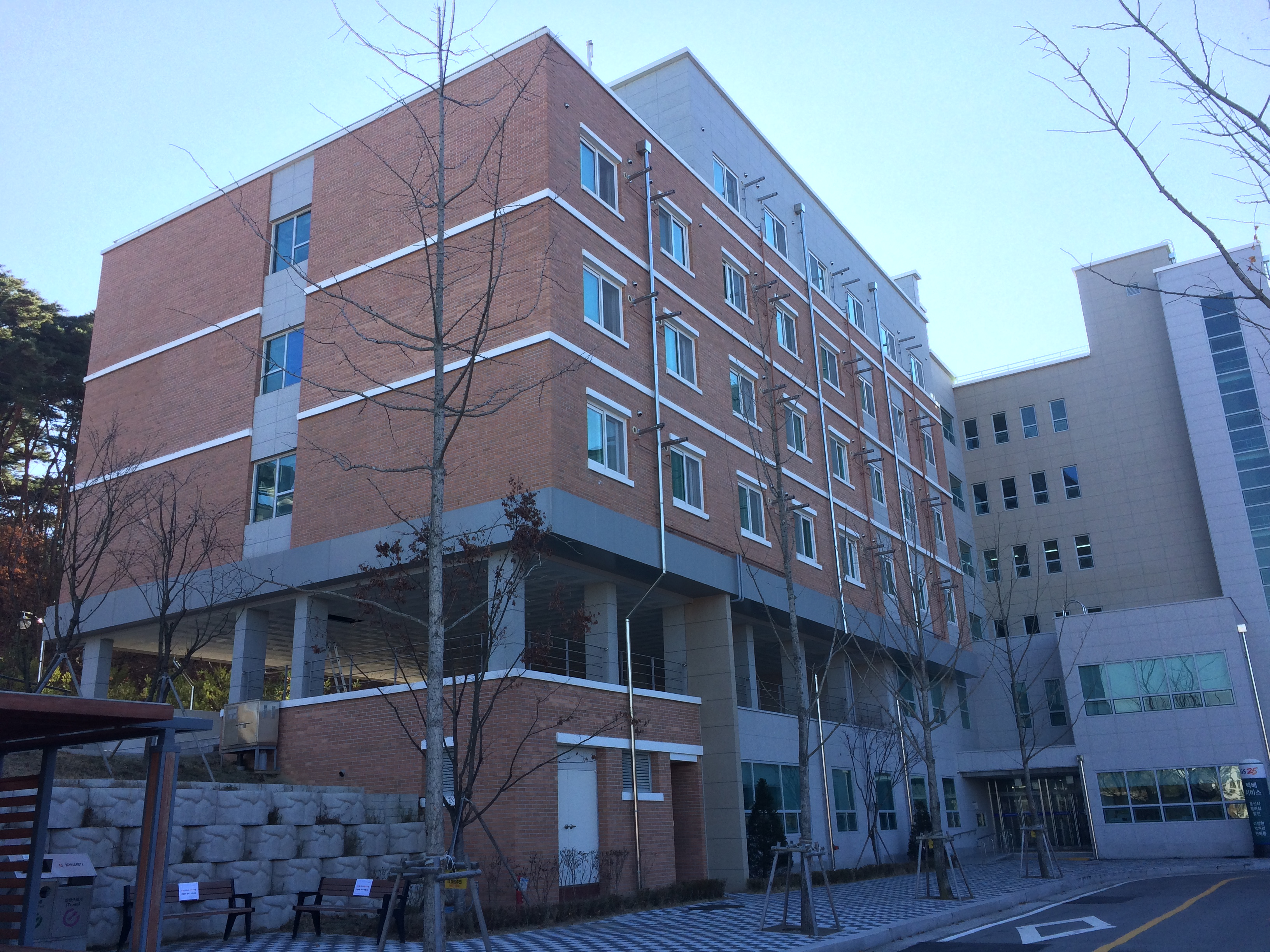 This photo shows Heasol Dormitory, at Gangneung-Wonju National University Wonju Campus.